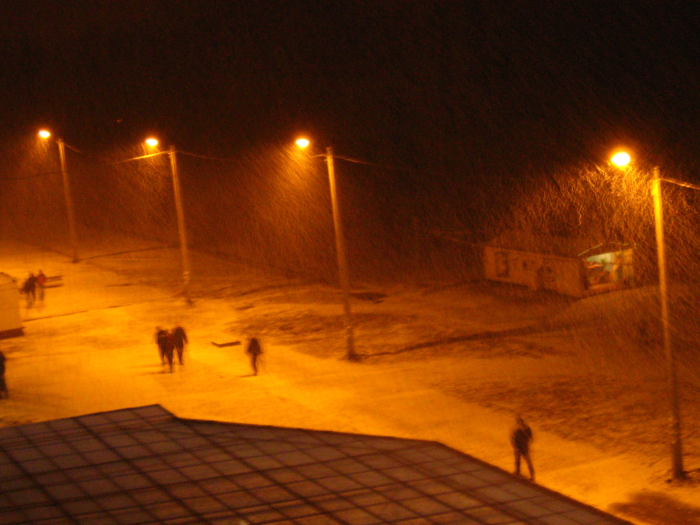 Heavy snowfall in early March in Kharkov